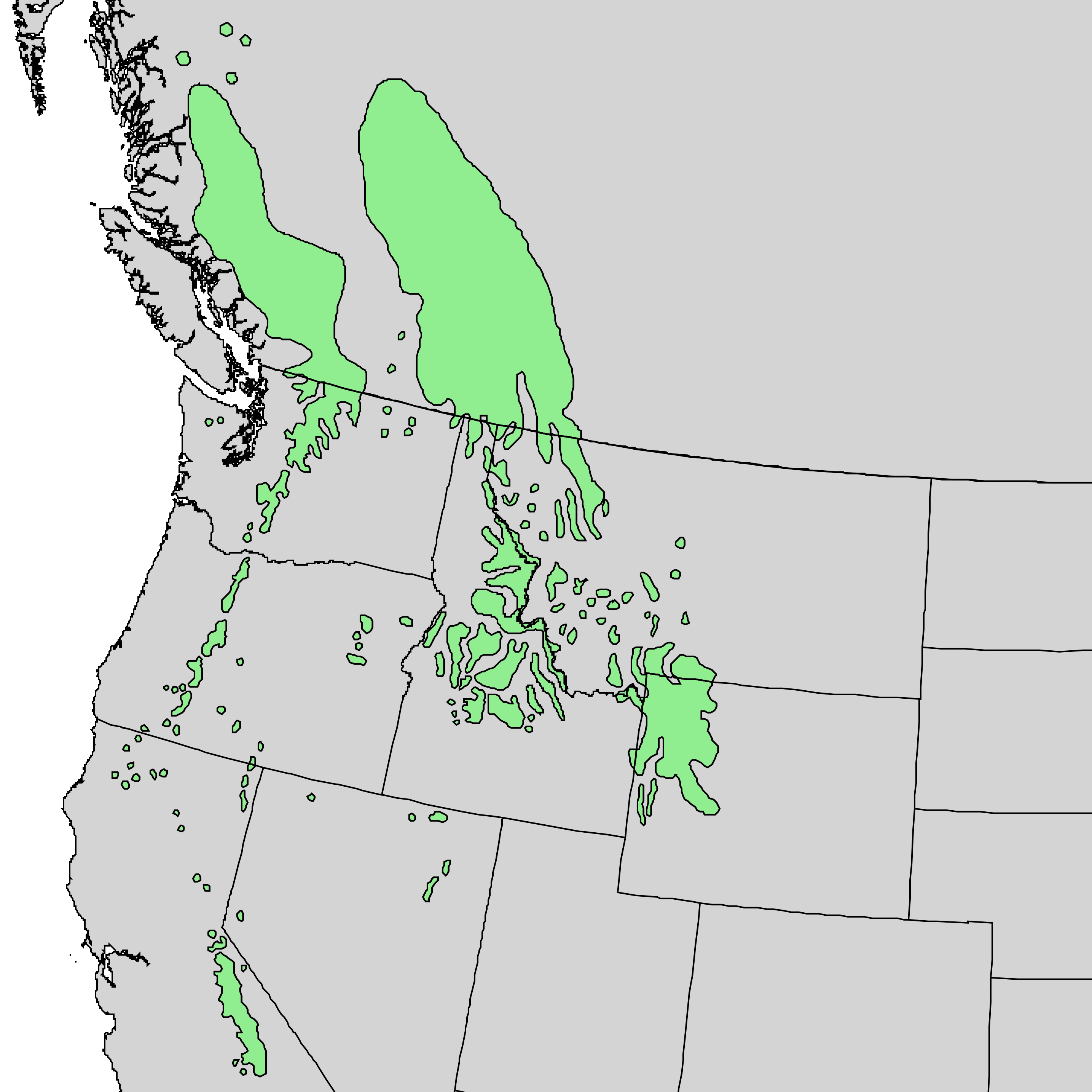 Natural distribution map for Pinus albicaulis